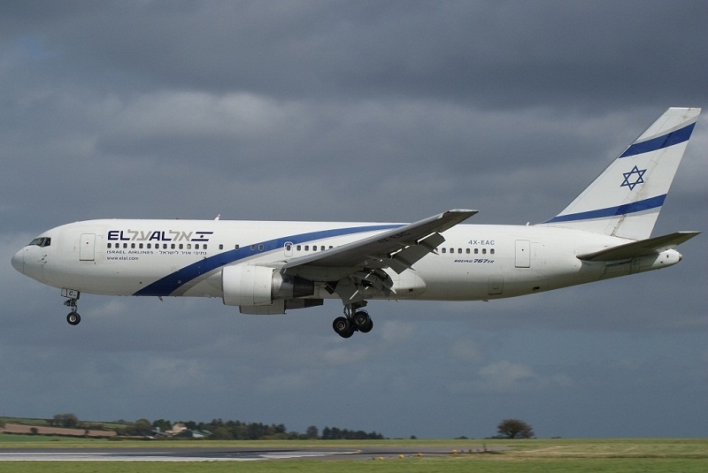 Boeing B767 El Al at Cork